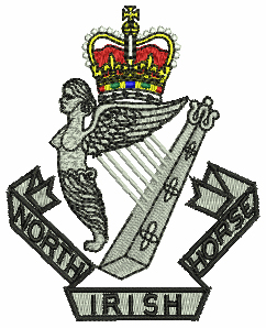 Blason of the badge of the North Irish Horse. First issued in 1903. this is not a true picture of the NIH Cap Badge